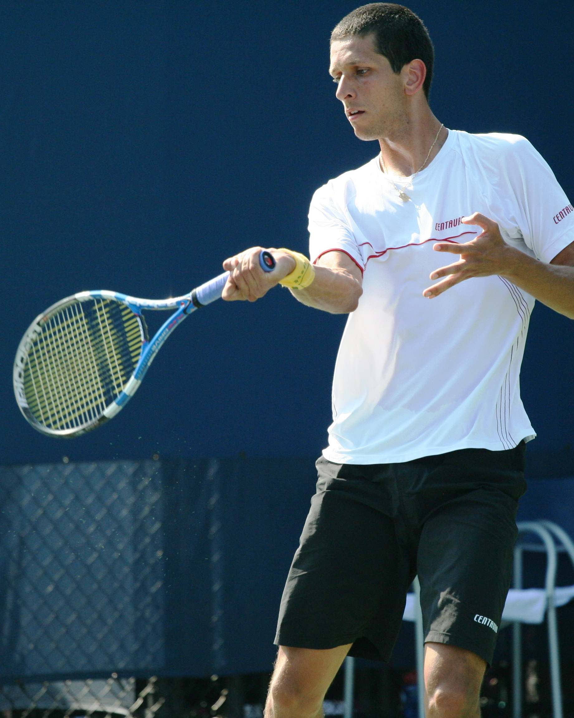 U.S. Open Tuesday, Aug. 31, 2010